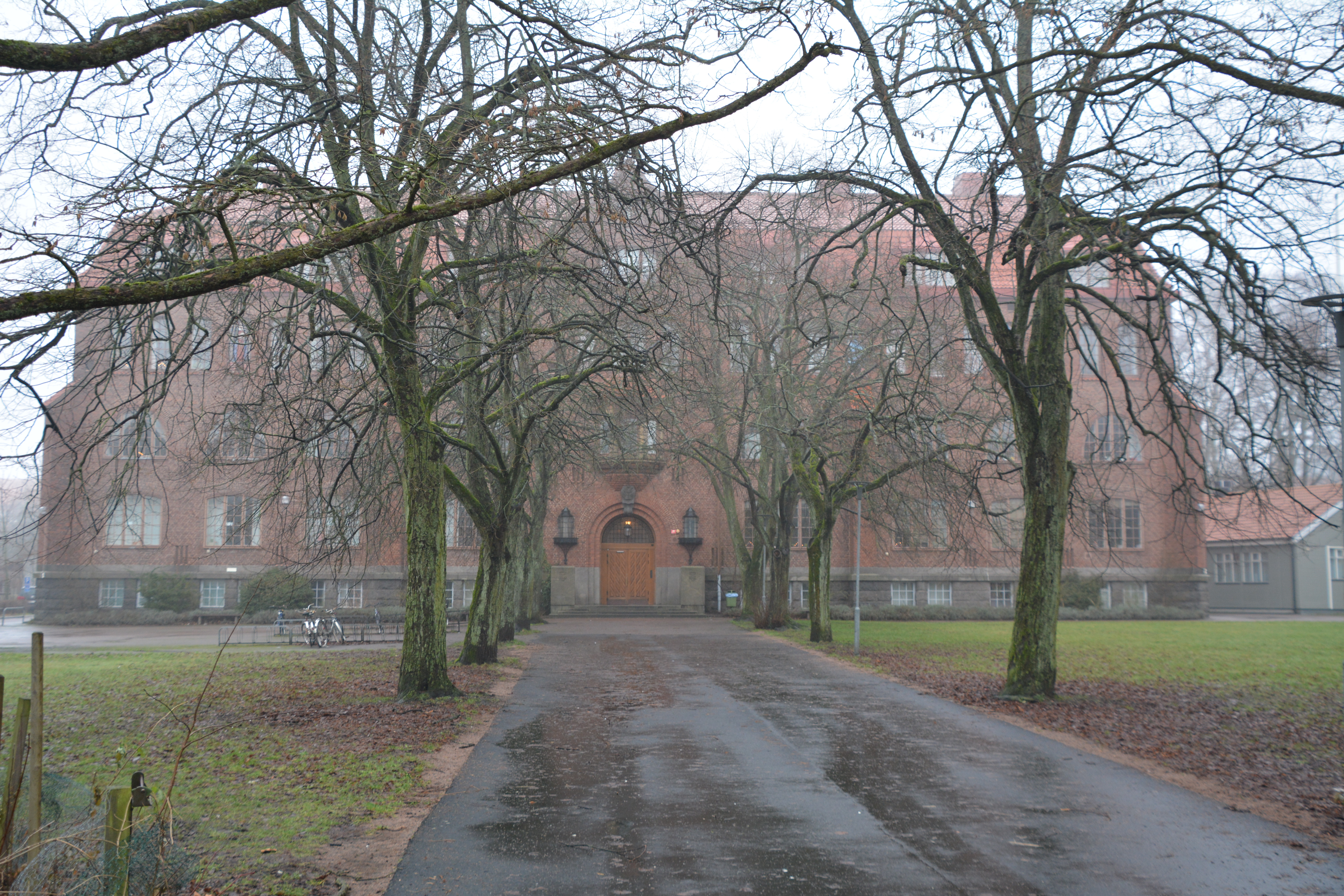 Lindebergska skolan I Lund